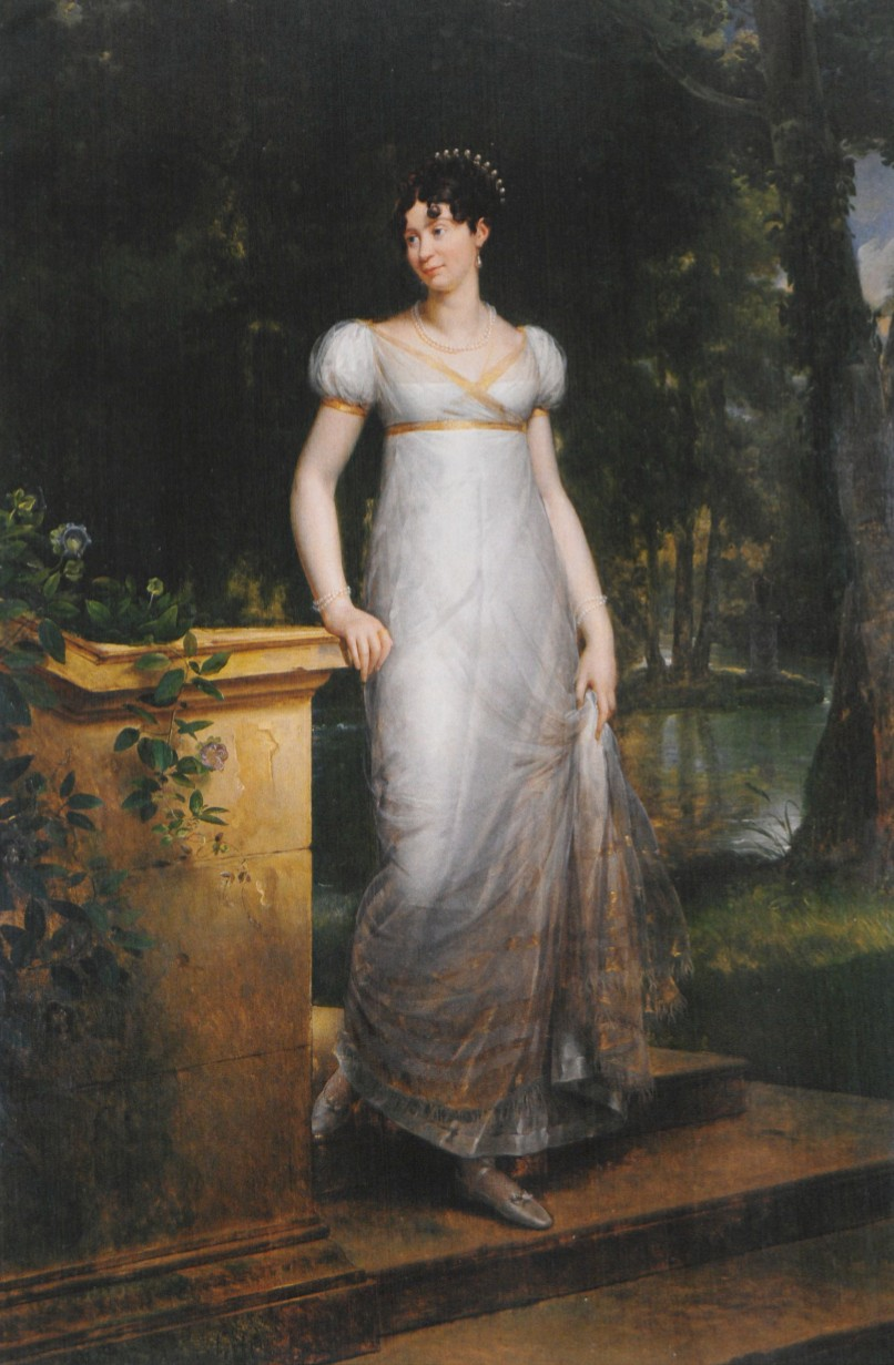 Duchess Theresa of Mecklenburg-Strelitz (1773-1839)